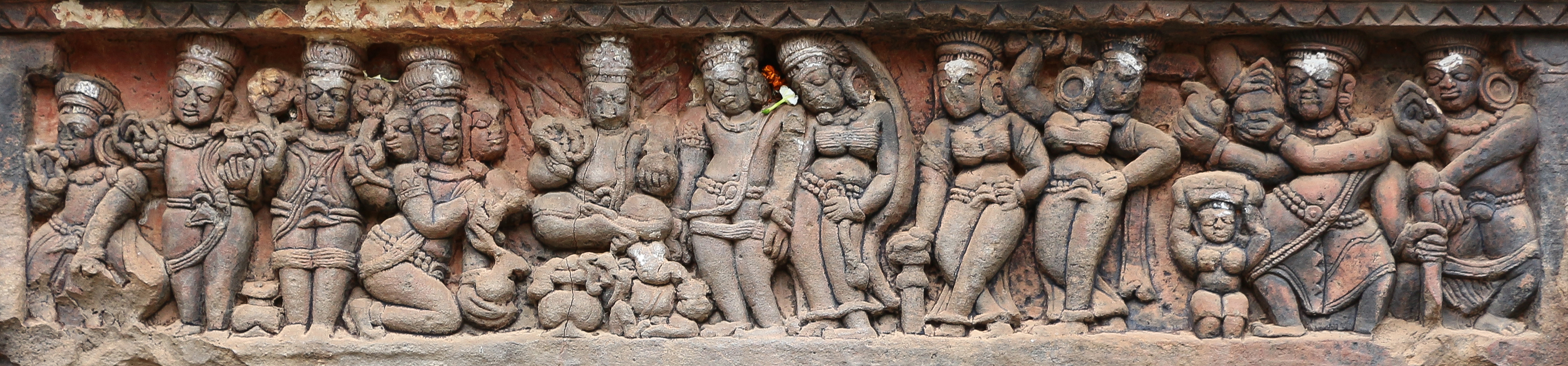 Sculptures on Parasuramesvara Temple, Bhubaneswar, India